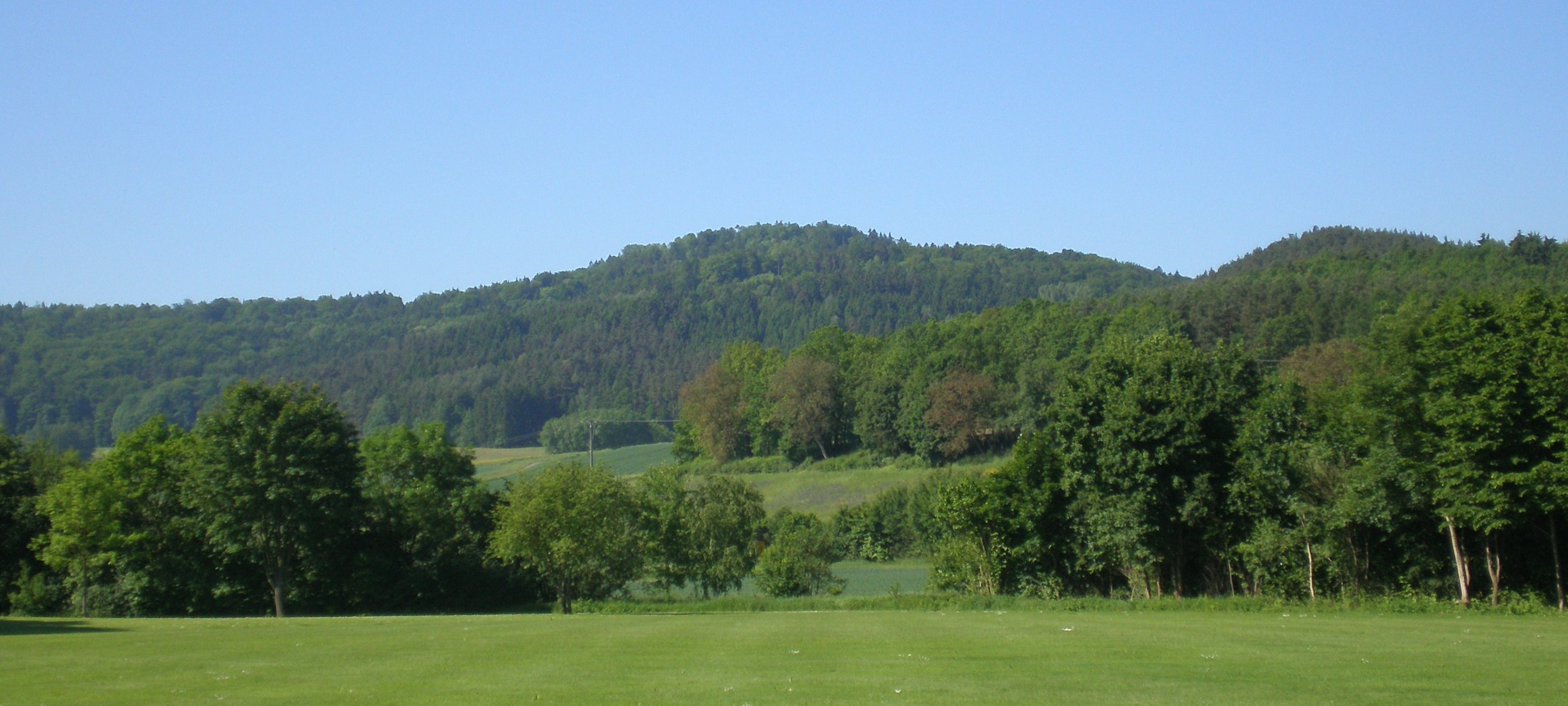 The Kordigast, seen from East